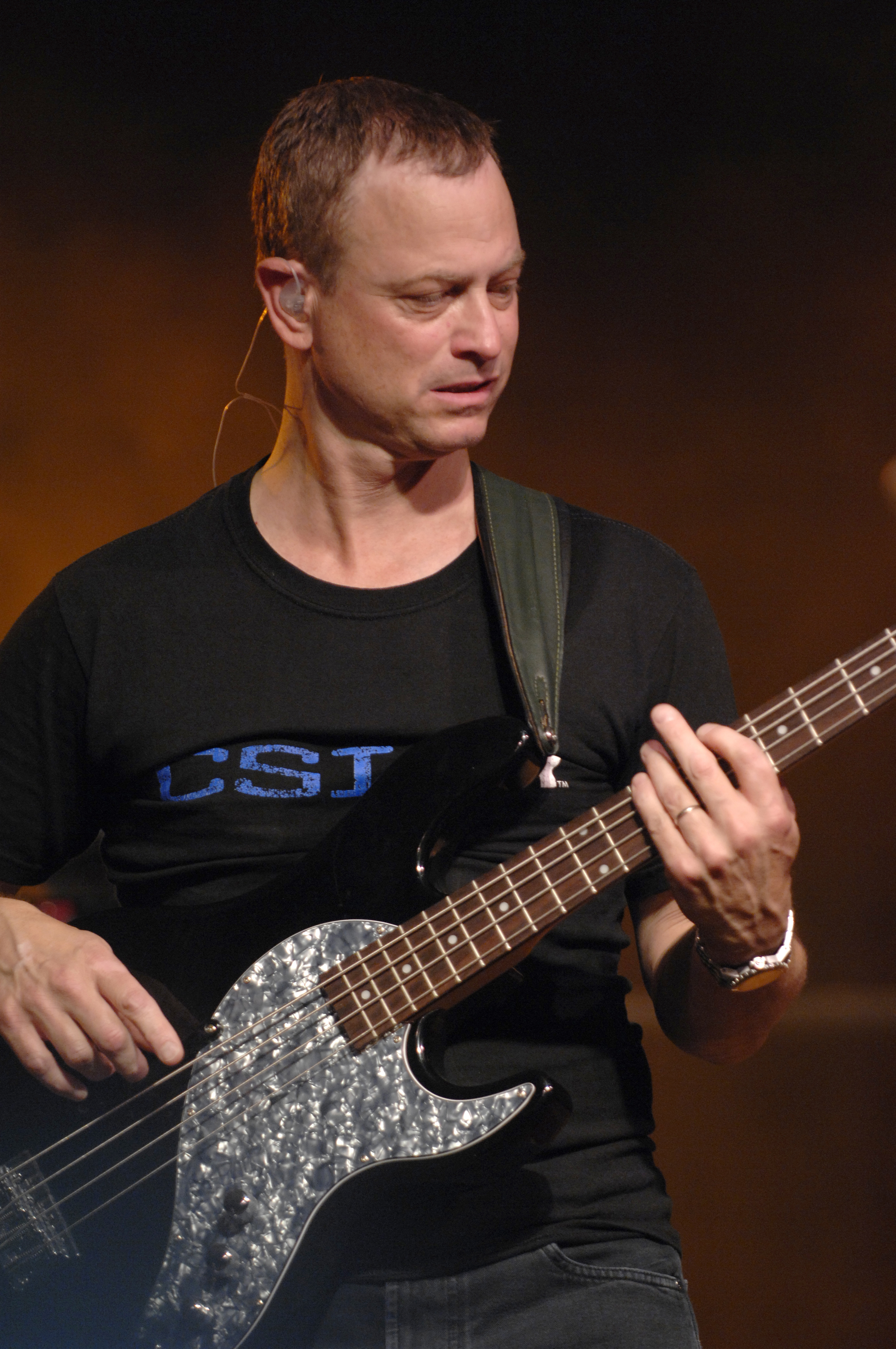 US-American actor Gary Sinise gets the crowd involved during the Lt. Dan Band's Independence Day performance at Ramstein Air Base, Germany, July 4, 2008. Lt. Dan is the character Mr. Sinise portrayed in the 1994 film, Forrest Gump, a role for which he earned an Oscar nomination for Best Supporting Actor.